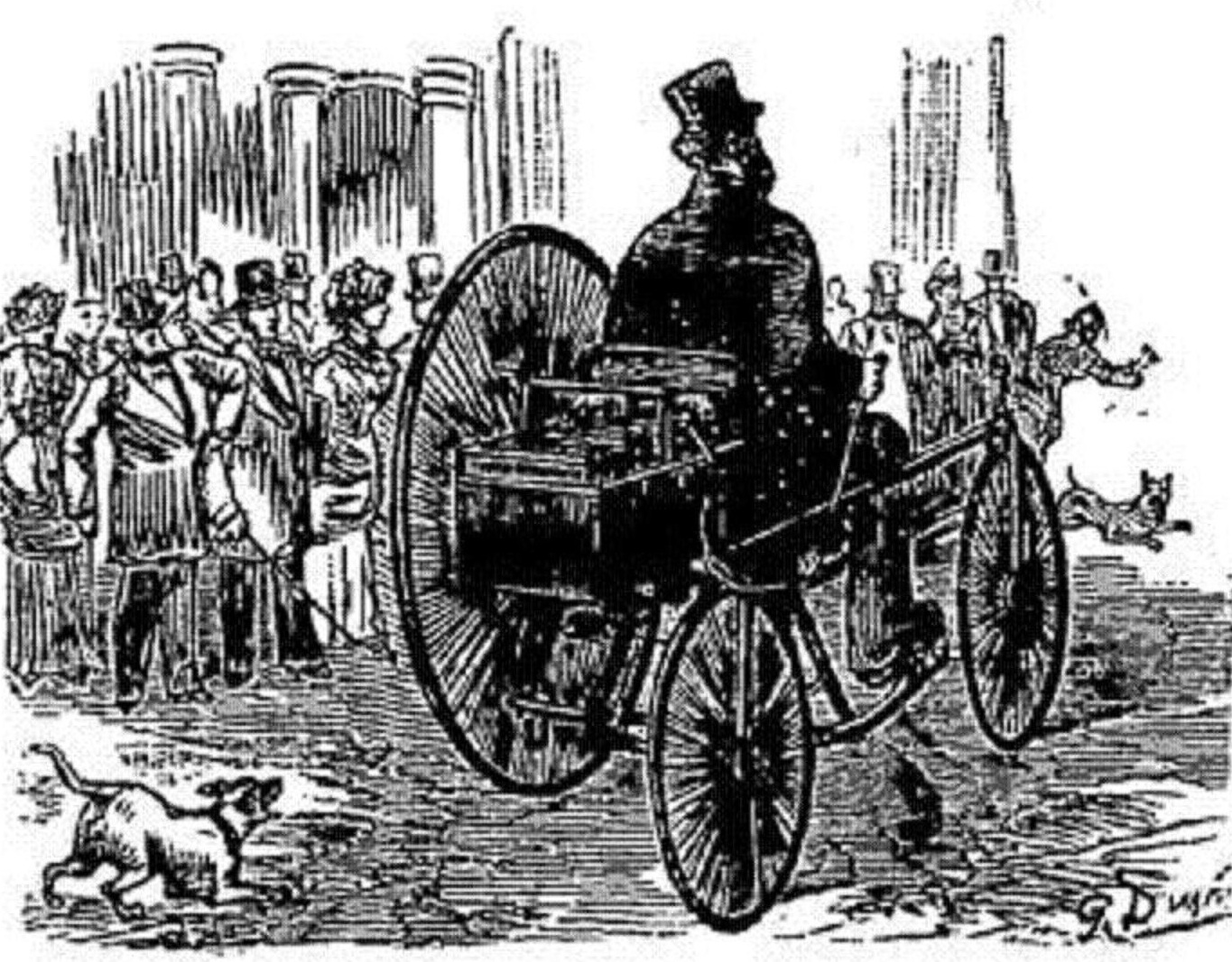 Trouve_trike_1881